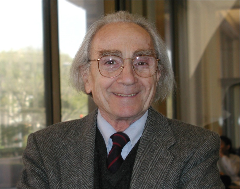 Eduardo Lozano in the Hillman Library at the University of Pittsburgh